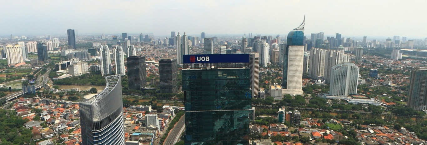 Jakarta City Skyline Viewing From Grand Indonesian